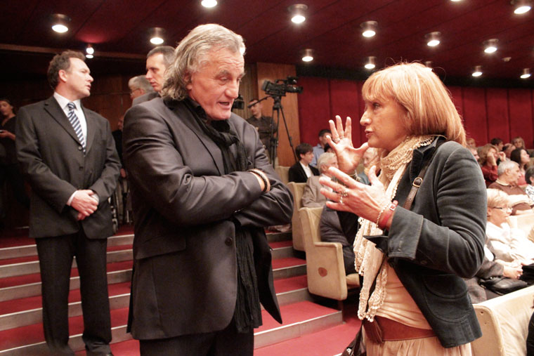 Zsolt Körtvélyessy a Actor from Hungary and Ildikó Móger